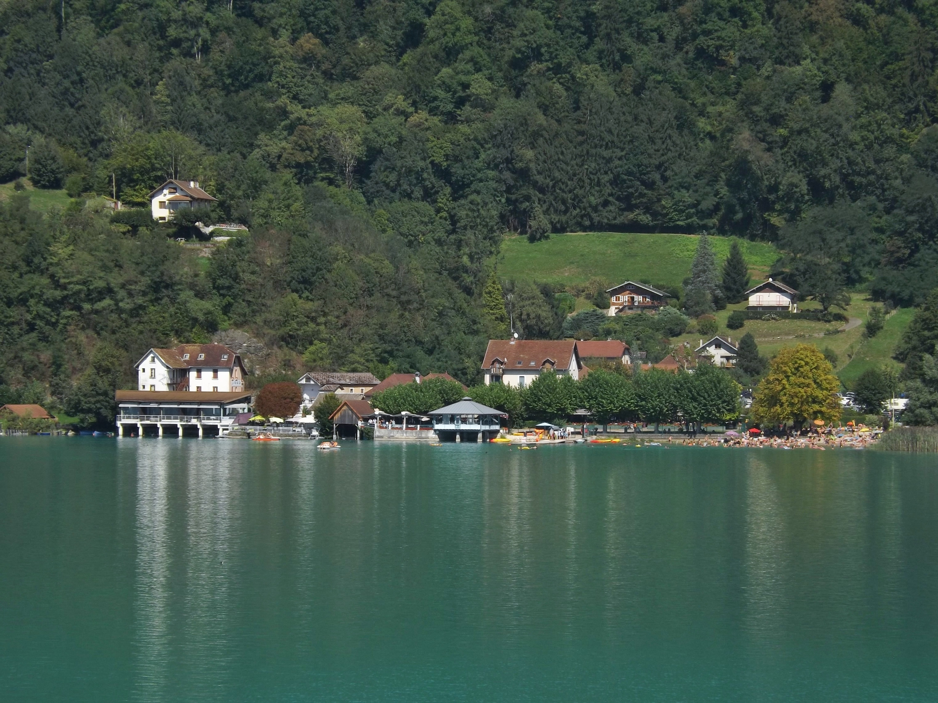 Sight of Aiguebelette - Le Port hamlet and Aiguebelette-Plage beach, part of the French commune of Aiguebelette-le-Lac, in Savoie.